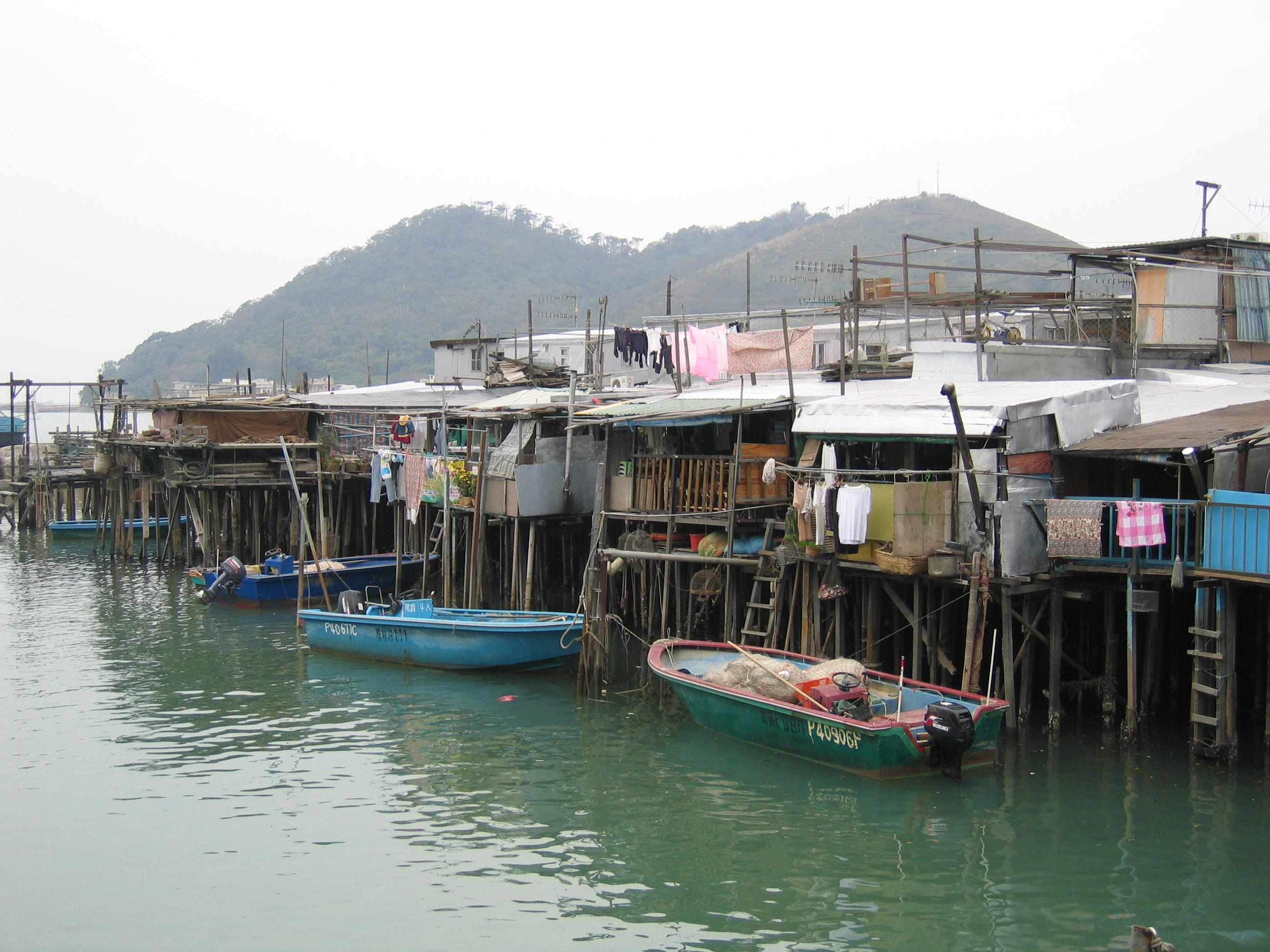 Self-taken photo of Tai O in Hongkong